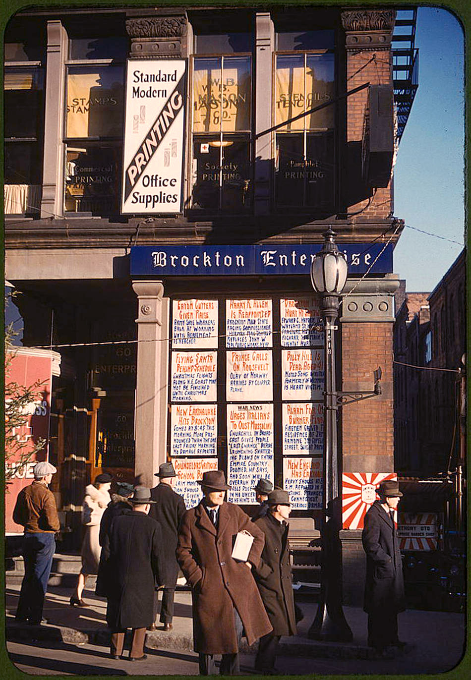 The W.B. Mason original building, from the National Archives.